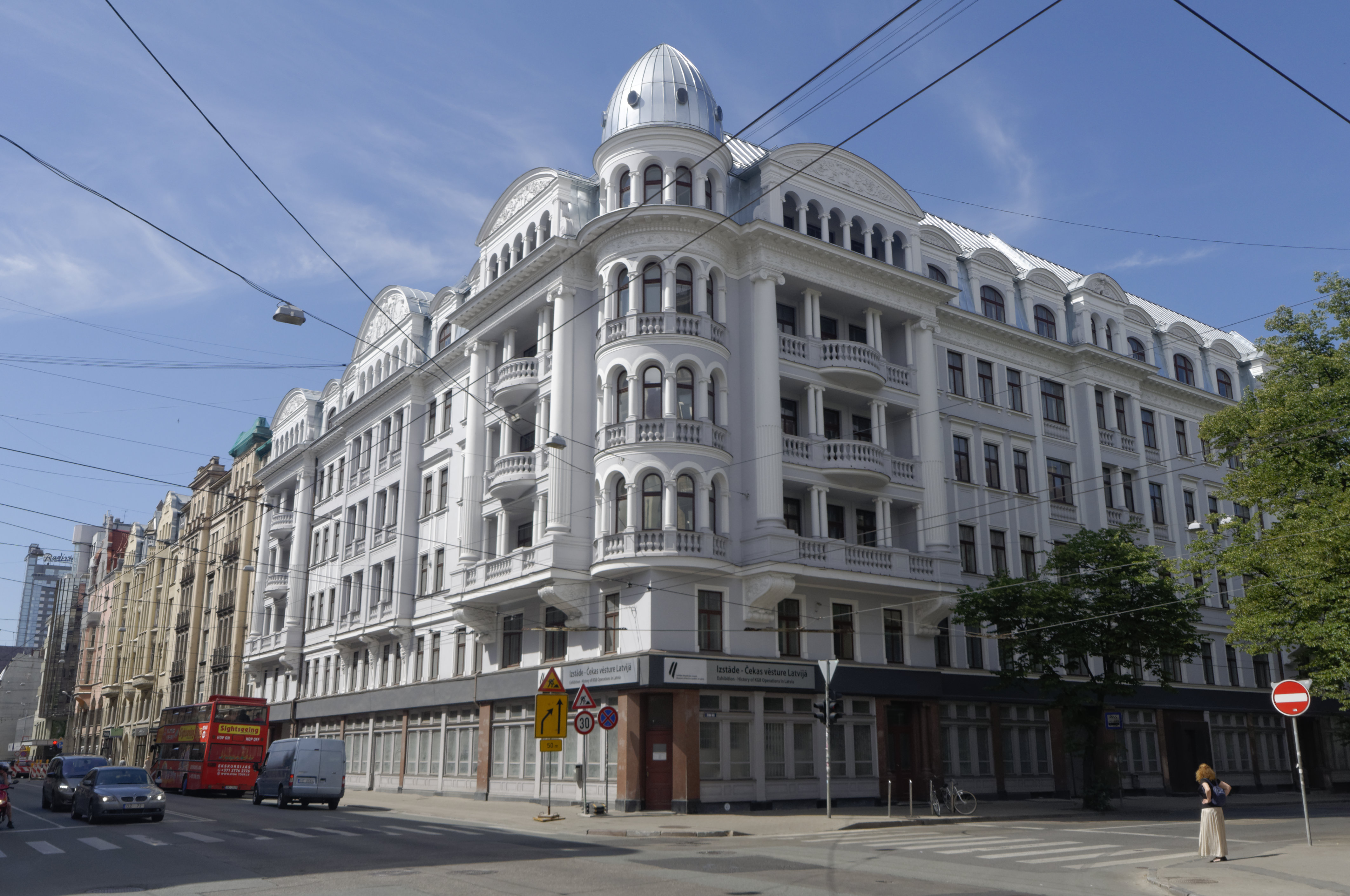 The former central office of the Soviet secret service KGB in Riga